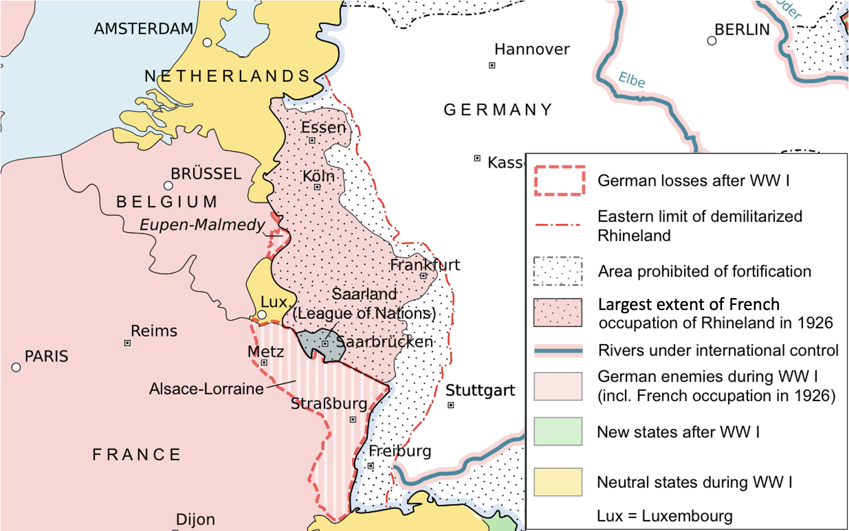 Map focusing on German Rhineland after WW I.